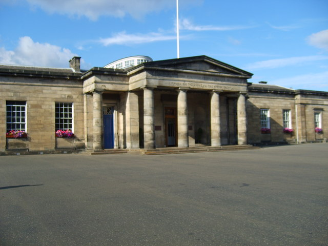 Edinburgh Academy The view of the front entrance to Edinburgh Academy, as seen from the playground in front of the school.